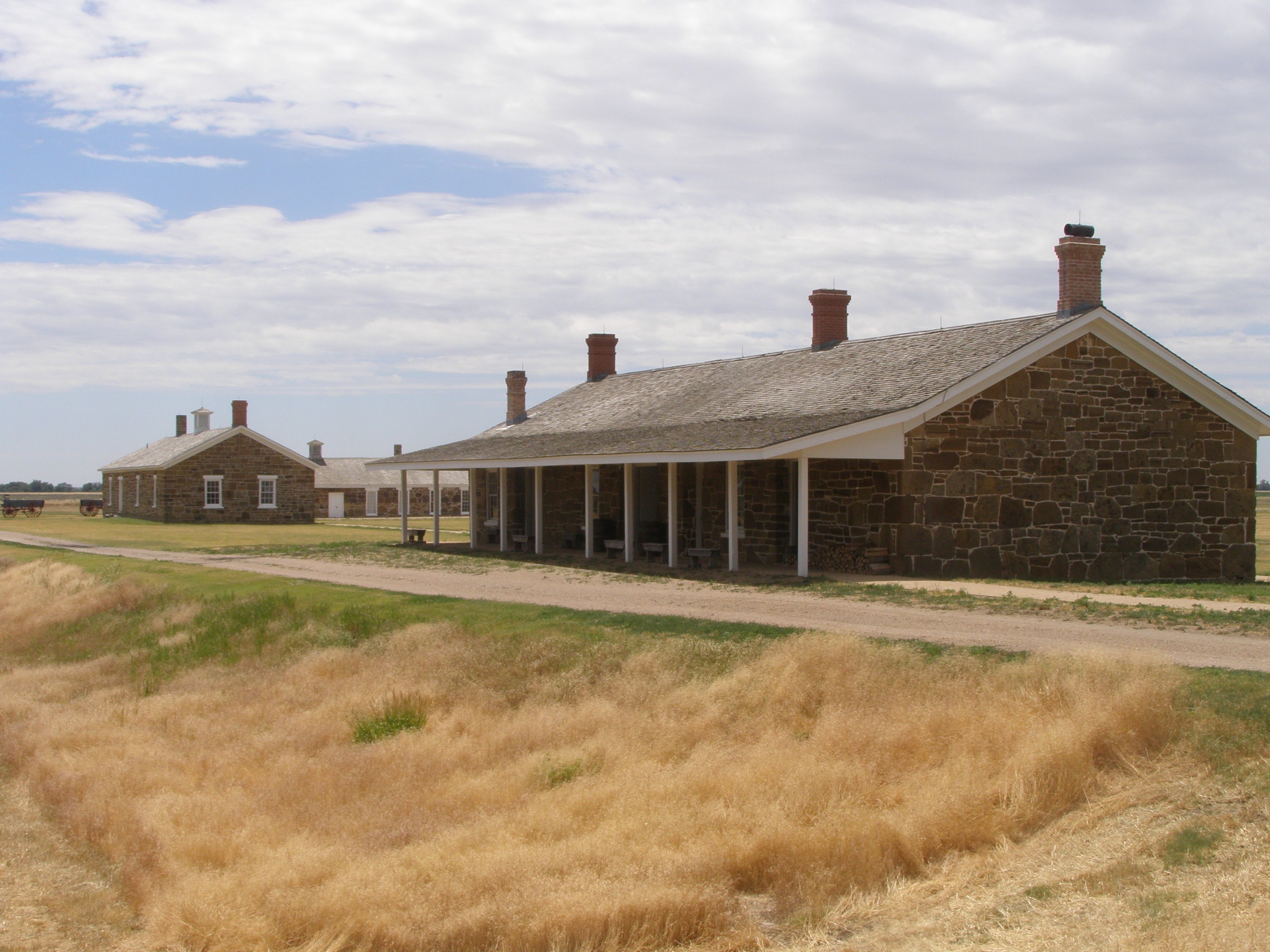 Commissary and Suttlers at Fort Larned, Kansas